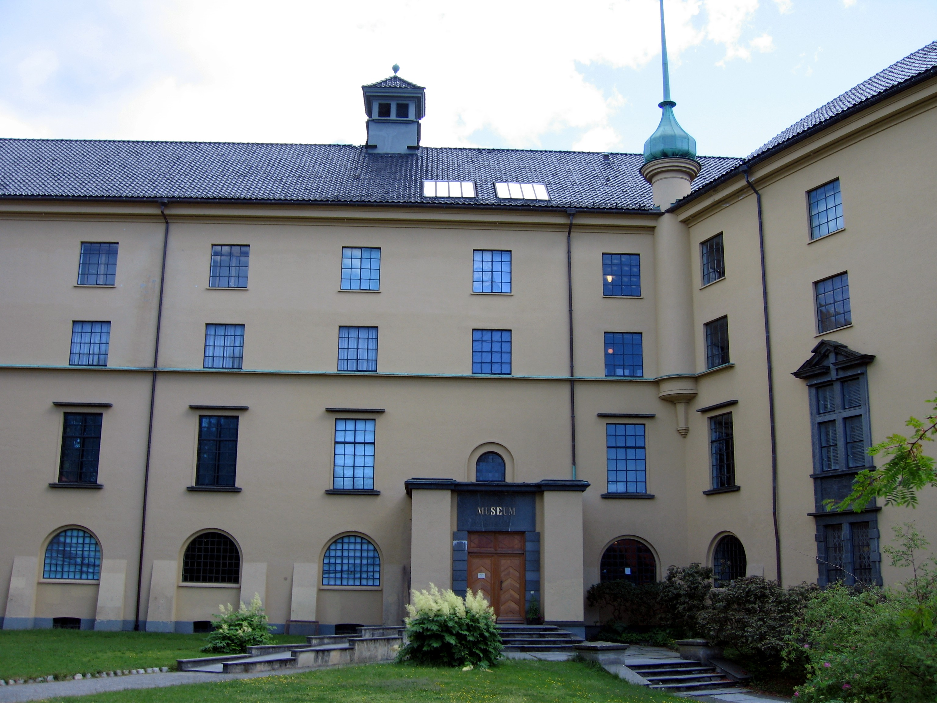 Bergen Museum, Cultural History Collections, University of Bergen, Norway